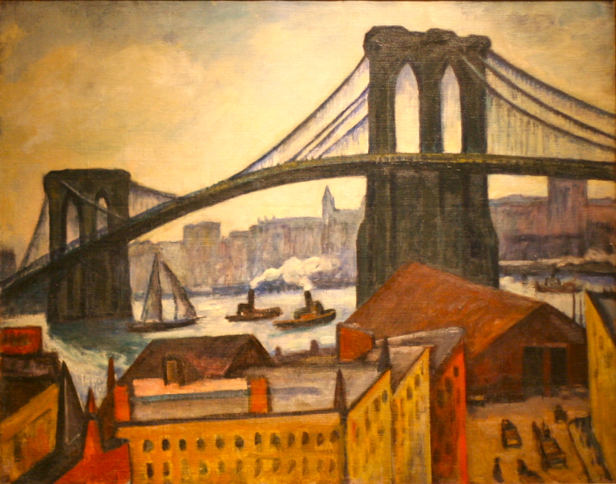 Samuel Halpert (American, 1884-1930). View of Brooklyn Bridge, n.d.. Oil on canvas. Brooklyn Museum, Gift of Benjamin Halpert, 54.15.